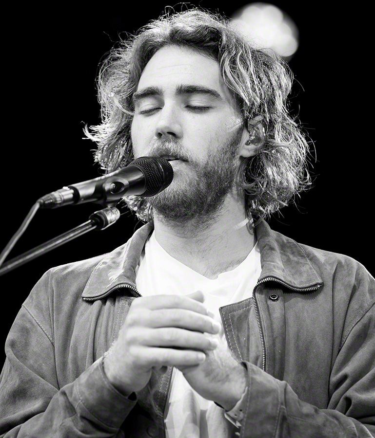 Matt Corby performs at Piknik i Parken in Oslo on 24. June 2016.